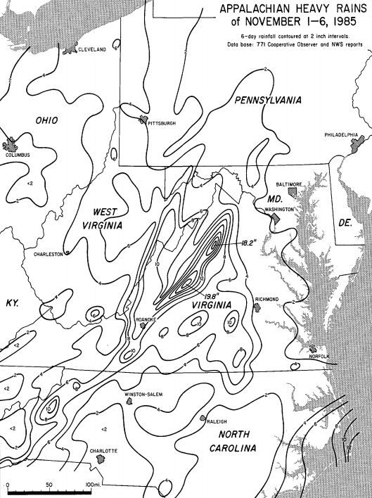 Rainfall map for storm event in the Mid-Atlantic states in early November 1985